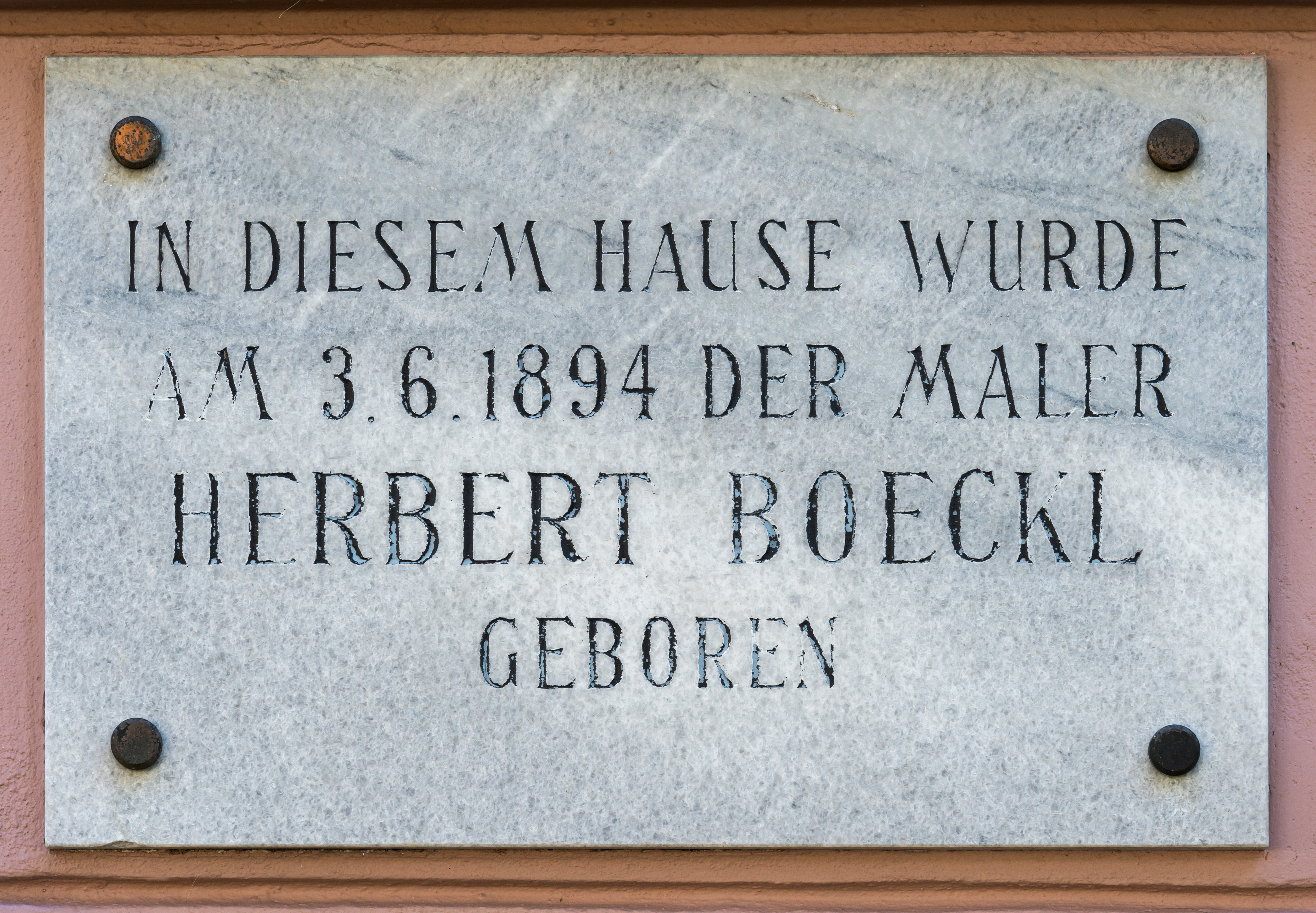 Memorial plaque at the birthplace of Herbert Boeckl, Viktringer Ring #11, 7th district «Viktringer Vorstadt», Klagenfurt, Carinthia, Austria, EU